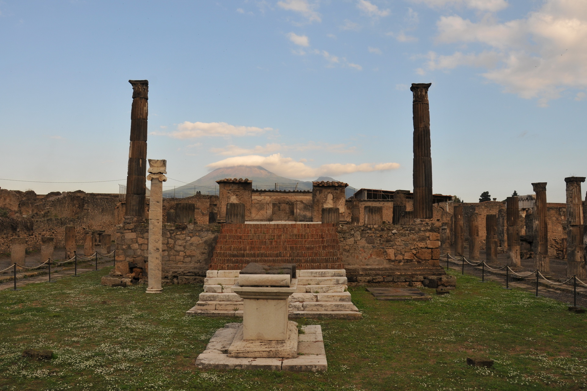 Pompeji, Remains of Apollon Temple, Volcano Vesuvio in background